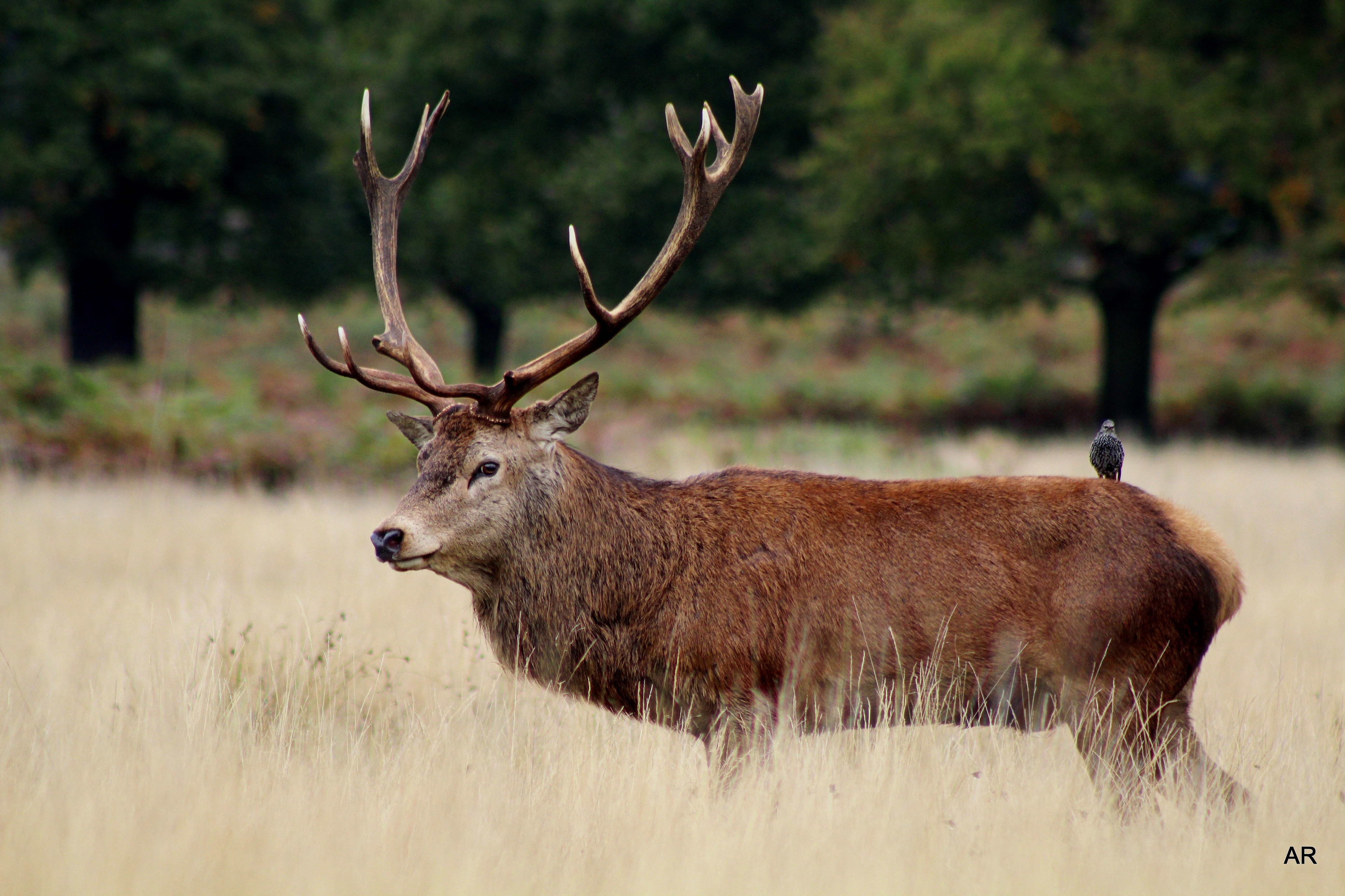 Stag and Skylark Richmond Park